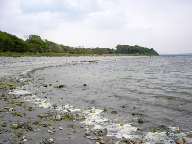 Stony beach at Drumcliffe bay The northern shore of Drumcliffe bay County Sligo, near Lissadell House.